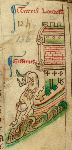 Prince Gruffydd of Wales falling from the Tower of London and breaking his neck